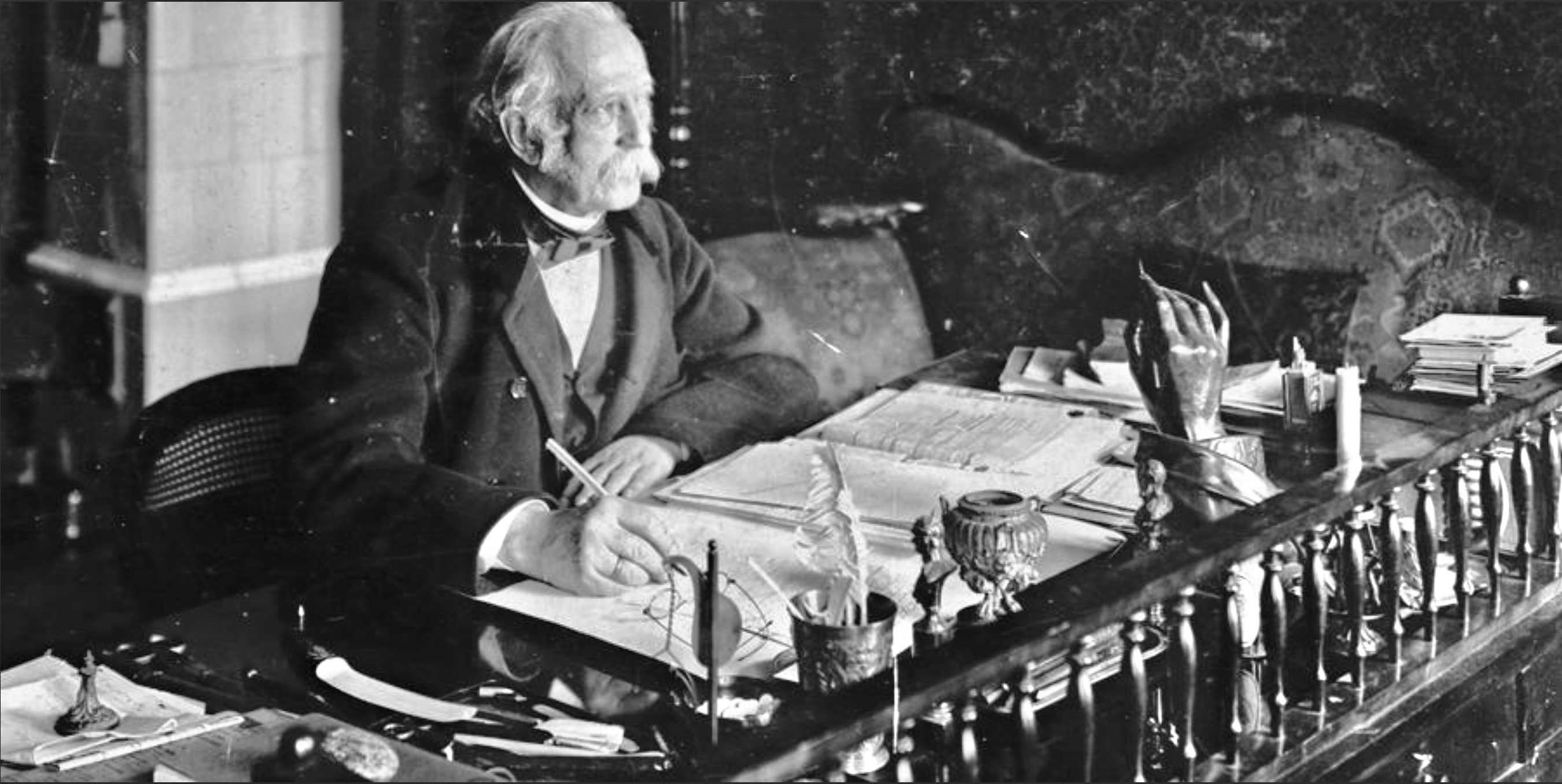 Writer Theodor Fontane at work, picture by Zander & Labisch, Berlin.